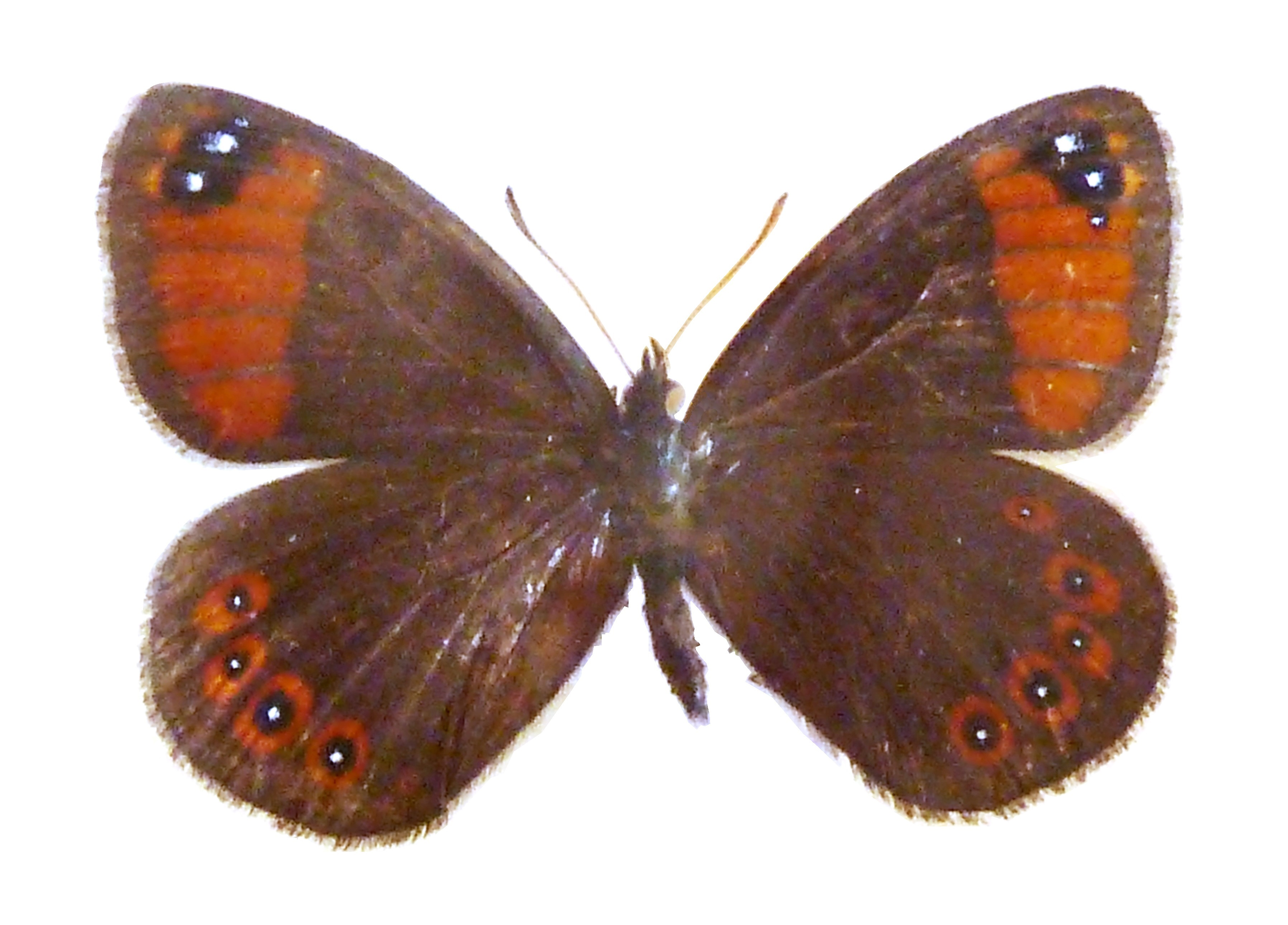 Dingana alaedeus in the collection of J Dobson